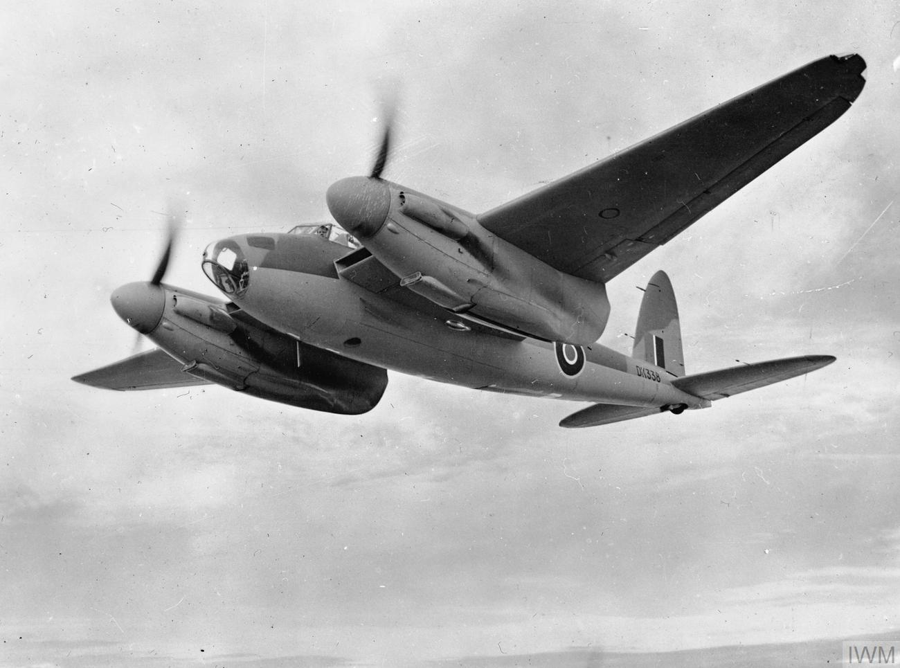 De Havilland Mosquito B Mark IV Series 2, DK338, in flight after completion. DK338 served with No. 105 Squadron RAF as 'GB-O', and took part in the successful low-level raid on the Phillips radio factory at Eindhoven, Holland, (Operation OYSTER) on 6 December 1942, led by the Squadron Commander, Wing Commander H.I.Edwards VC.